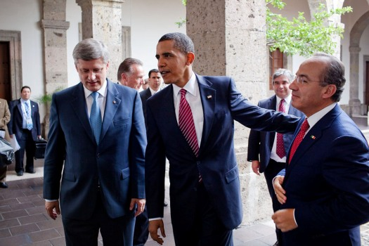 President Barack Obama with Canada's Prime Minister Stephen Harper, left, and Mexico's President Felipe Calderon at the North American Leader' Summit at the Cabanas Cultural Center in Guadalajara. Monday, August 10, 2009